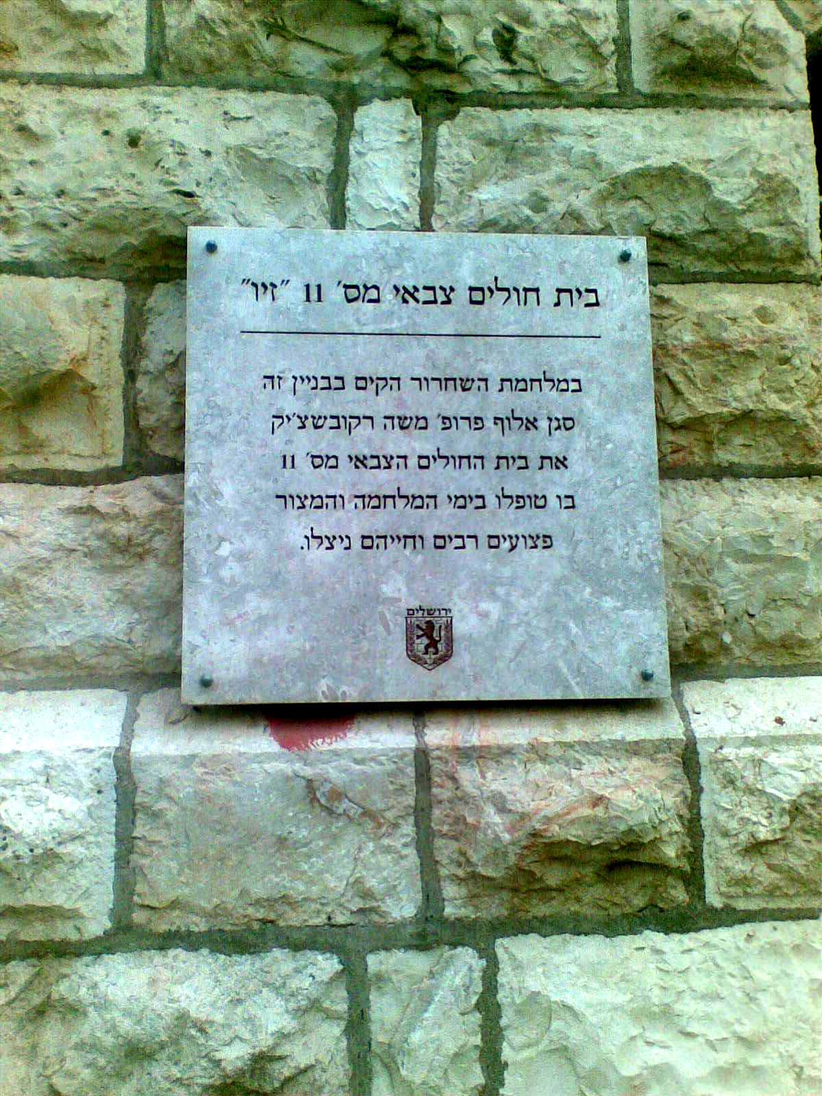 Military hospital 11 (1948) Ziv, Israel Defense Forces - now : Bikur Holim Hospital, located at the corner of HaNeviim Street and Strauss Street (formerly "Chancellor Avenue").